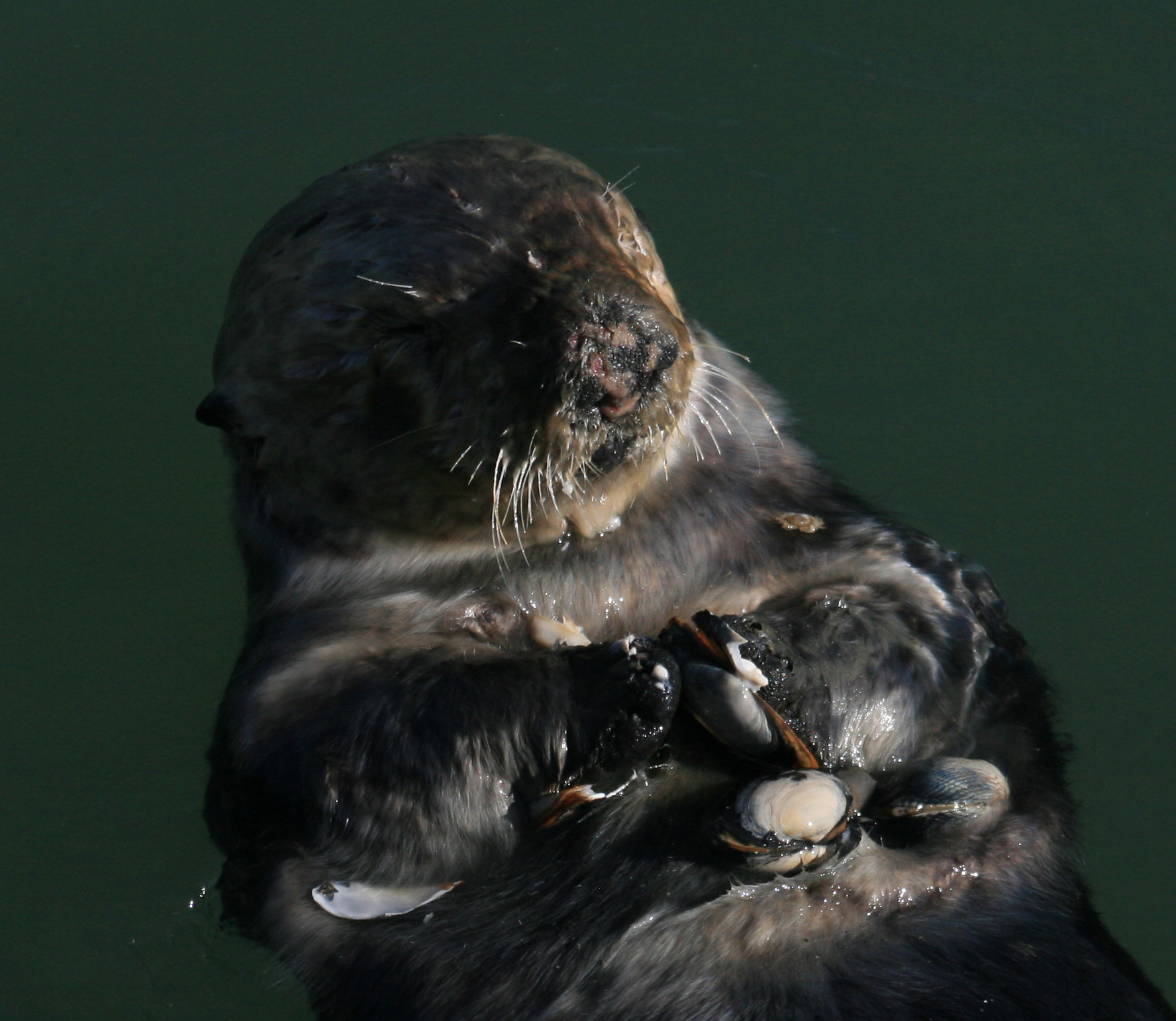 Sea Otter at Moss Landing.Sea otters usually bring up few shels, and while they eat one, they keep the rest on their tummy.